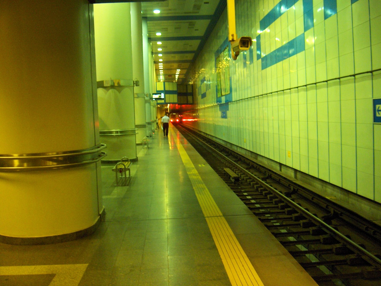 Gayrettepe metro station in Istanbul